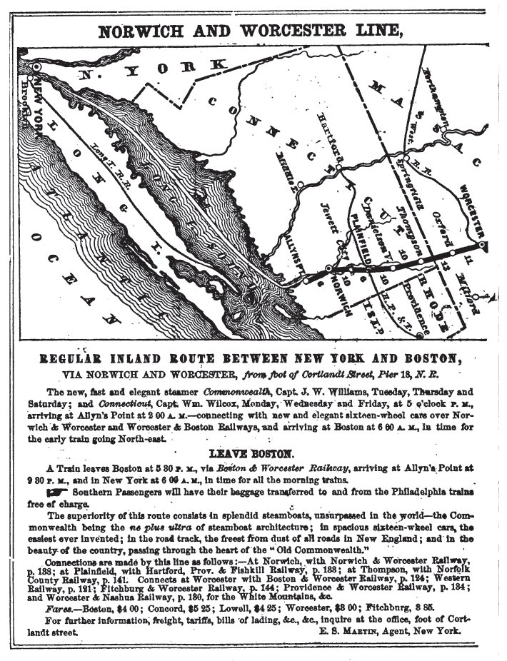 Advertisement showing the train and steamboat route from New York City to Worcester via Allyn's Point, published in 1859 by the Norwich and Worcester Railroad. The steamboats for this route were Commonwealth and Connecticut, owned by the Norwich and New London Steamboat Company, which had a partnership with the railroad. The advertisement promotes Commonwealth as "the ne plus ultra of steamboat architecture". North is to the right in this map.